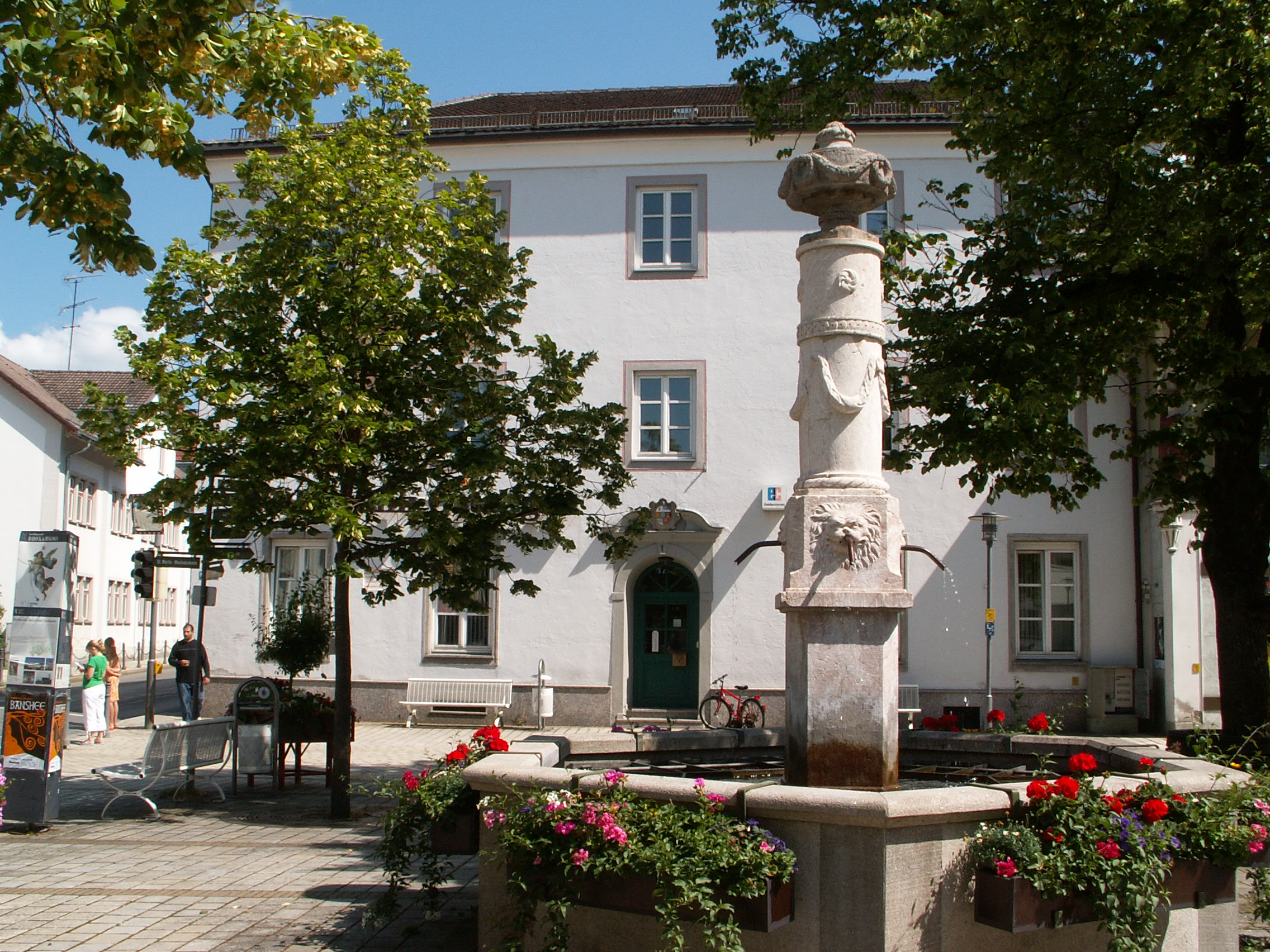 Ehem. Amtshaus mit Marktbrunnen, Marktoberdorf